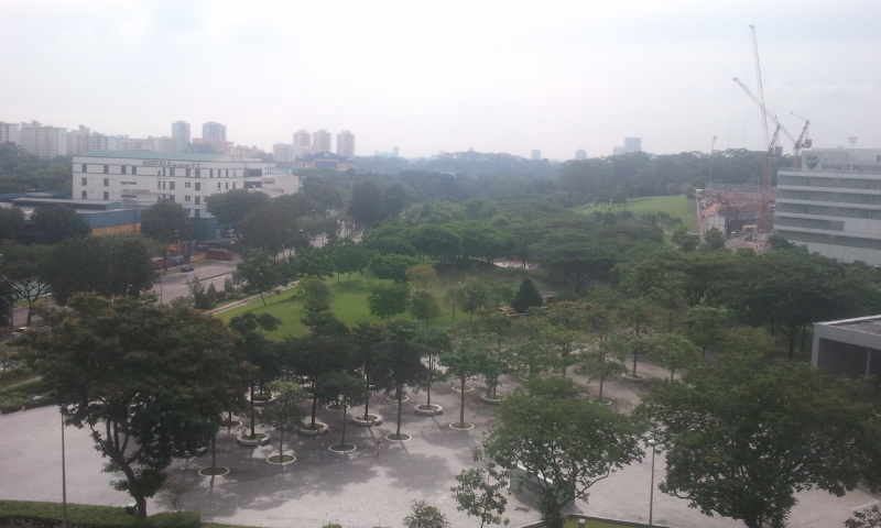 Looking North toward Johor Building